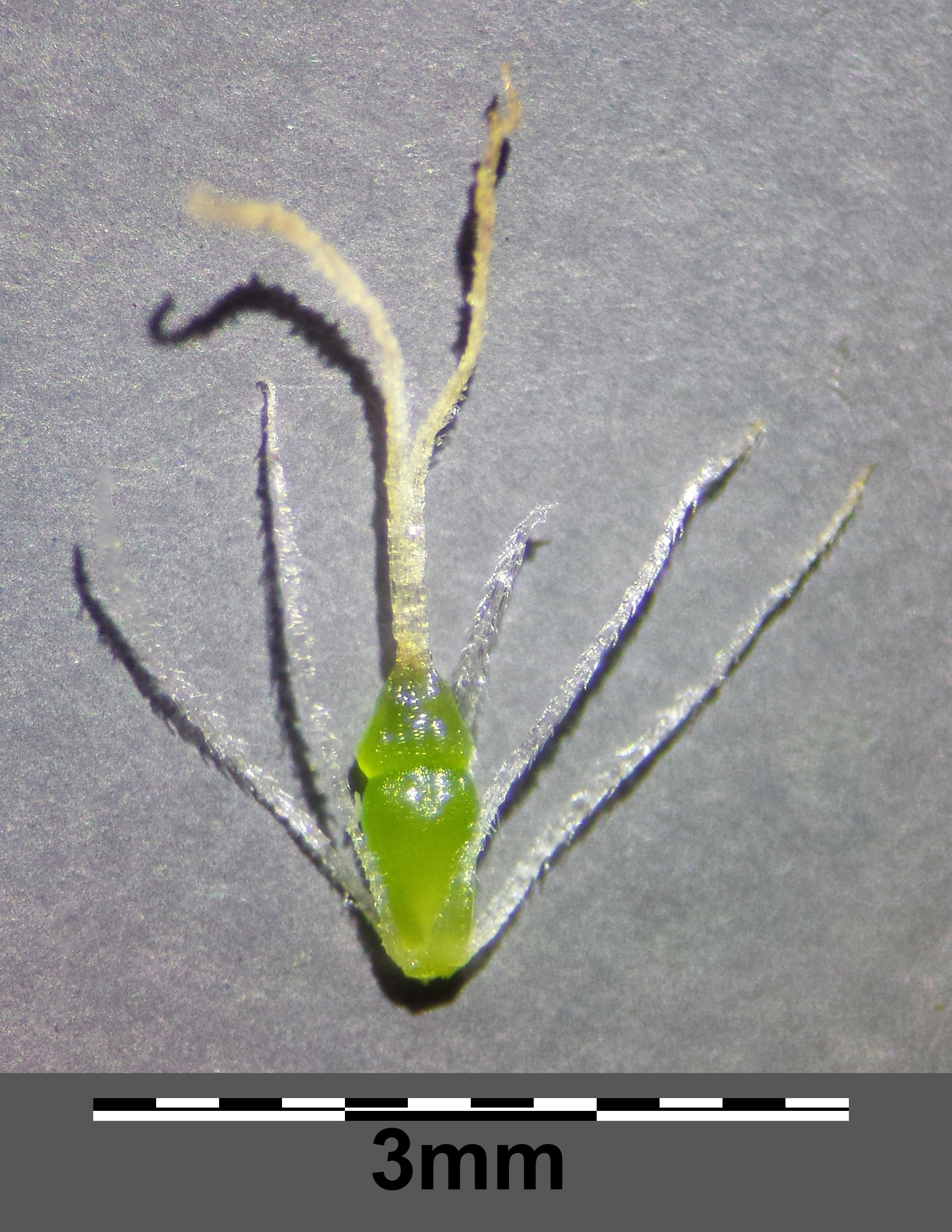 Flower/fruit with perigone bristles Taxonym: Eleocharis mamillata subsp. mamillata ss Fischer et al. EfÖLS 2008 ISBN 978-3-85474-187-9 Location: pond to the south of Pyhrabruck, district Gmünd, Lower Austria - ca. 550 m a.s.l. Habitat: ground of a pond